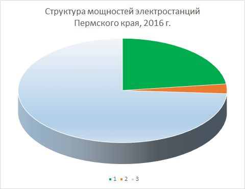 Структура энергетики Пермского края